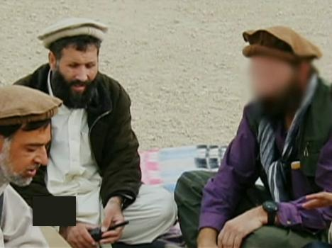 Meeting between (left to right) Haji Zaman Gamarshareek, Hazret Ali, CIA Juliet Team leader "George", during Tora Bora battle.